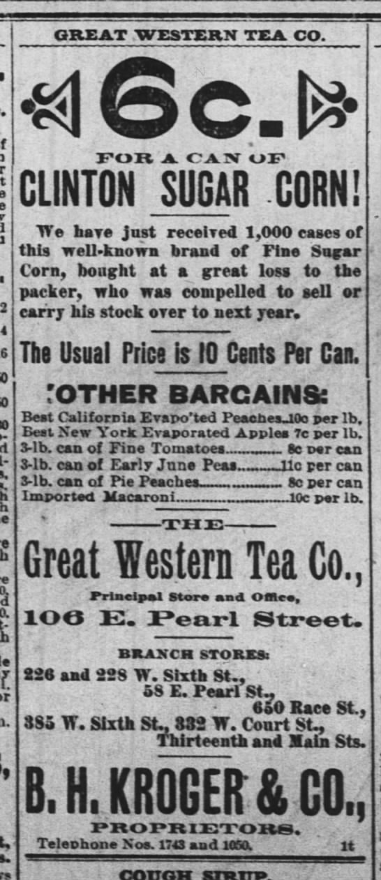 Early B. H. Kroger & Co. newspaper ad advertising "6 cents for a can of Clinton sugar corn"